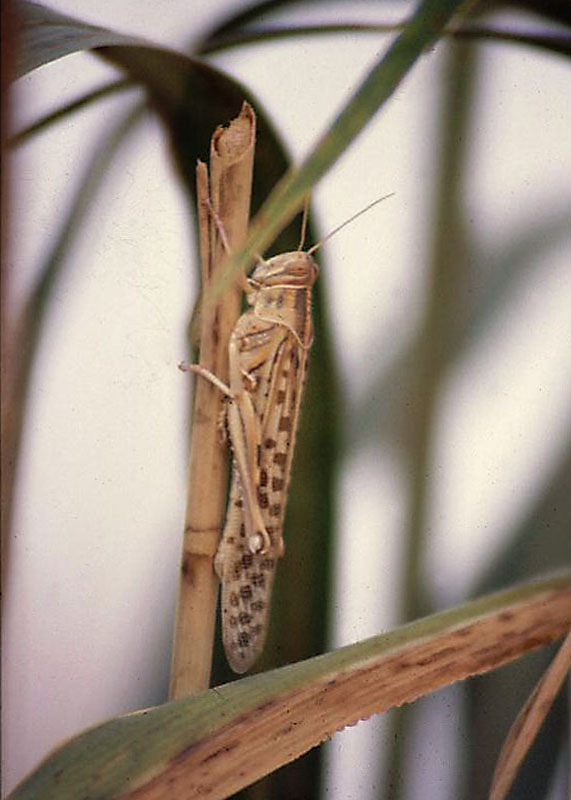 Desert locust (Schistocerca gregaria) in solitary phase taken by Christiaan Kooyman in Niger in September 1990.